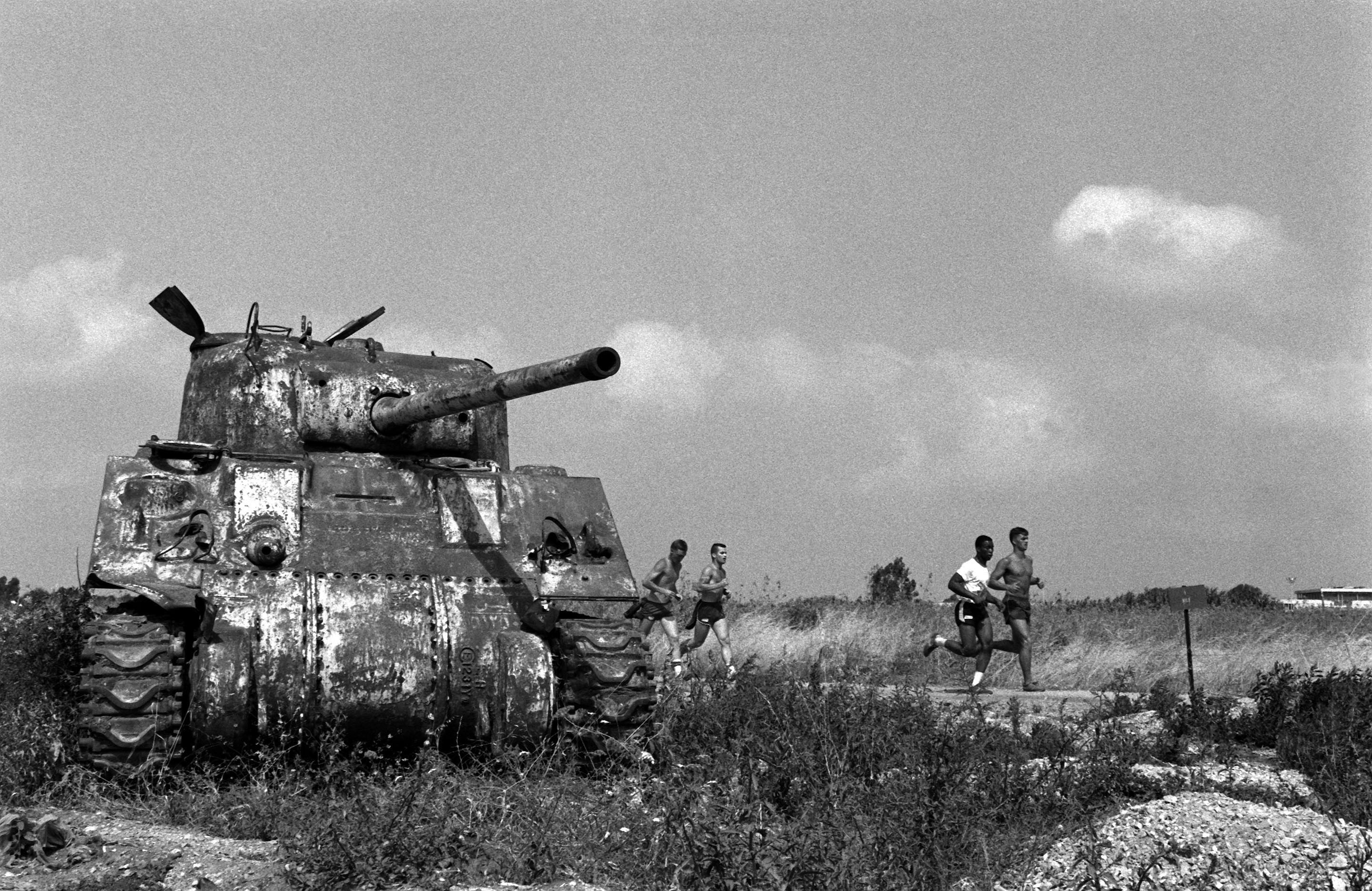 U.S. Marines run past the ruins of a Sherman tank during their daily physical training exercises. They wre participating as members of the multinational peacekeeping force in Lebanon. The tank was probably a Sherman Firefly used by militias in Lebanon.